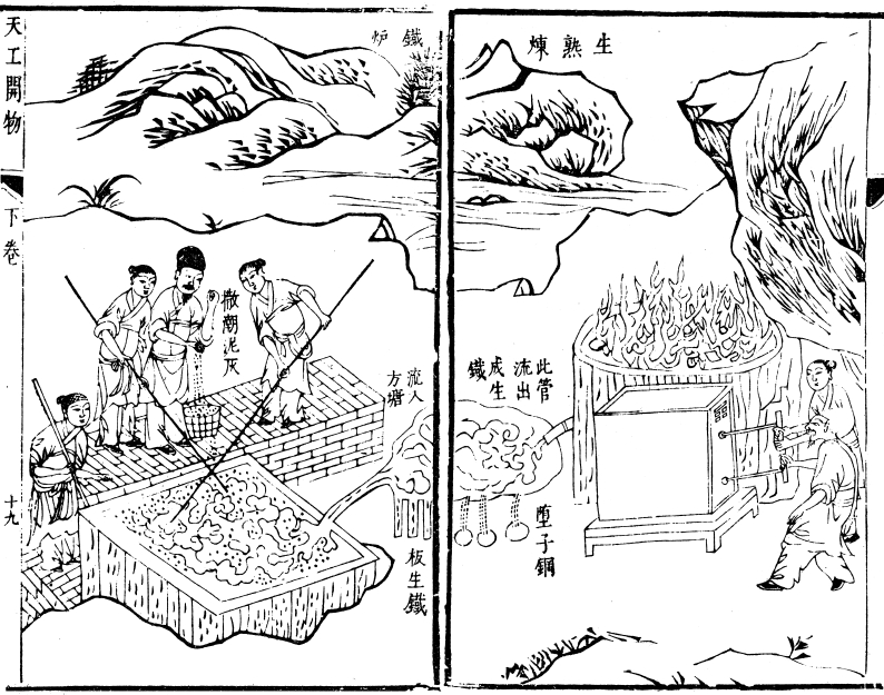 Chinese iron workers smelting iron ore to make pig iron and wrought iron in 16th century. The left half of the illustration shows a fining process, while the right half displays men operating a blast furnace. The fining process uses calcium oxide which is spread over the raw iron and stirred in (撒潮泥灰) (see Don. Wagner analysis): this is a specific fining process, very different form later chinese puddling processes. This illustration is an original from the Tiangong Kaiwu encyclopedia printed in 1637, written by the Ming Dynasty encyclopedist Song Yingxing (1587-1666). Picture taken on the web from at: The picture also appears in Figure 14-10 on page 250 of E-tu Zen Sun and Shiou-Chuan Sun's translation of the Tiangong Kaiwu encyclopedia (Pennsylvania State University Press, 1966).